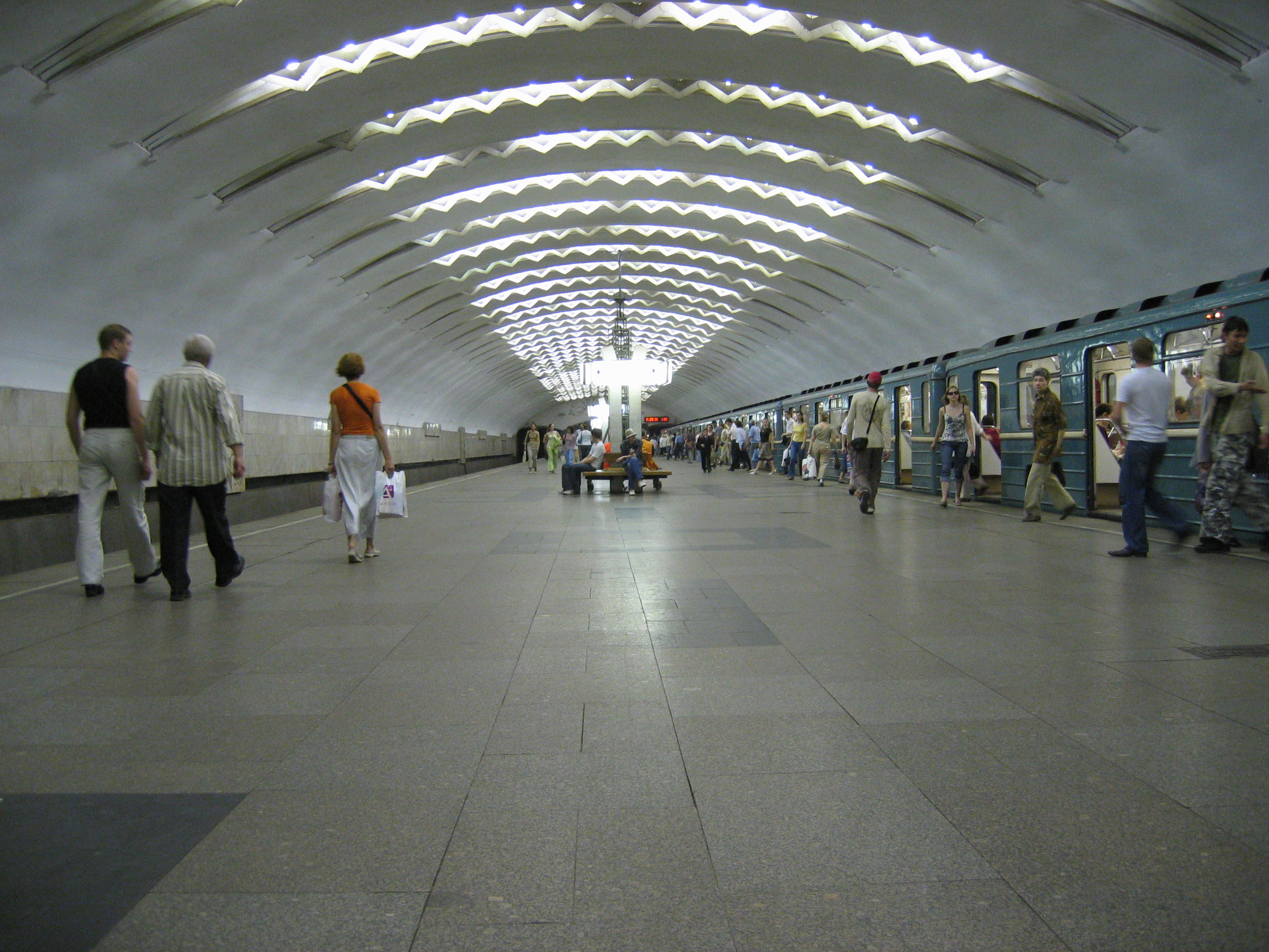 Perovo station of Moscow Metro.